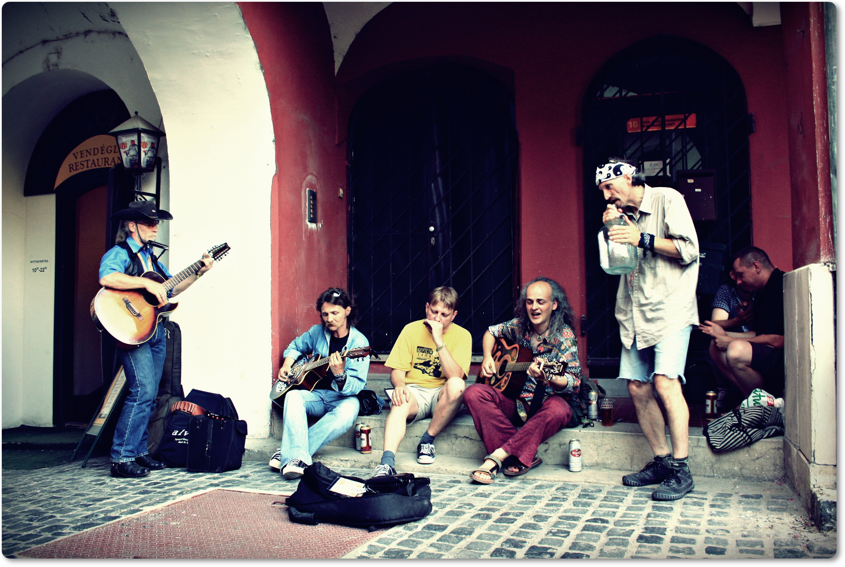 Street performers in a street performer's festival, in Veszprém.